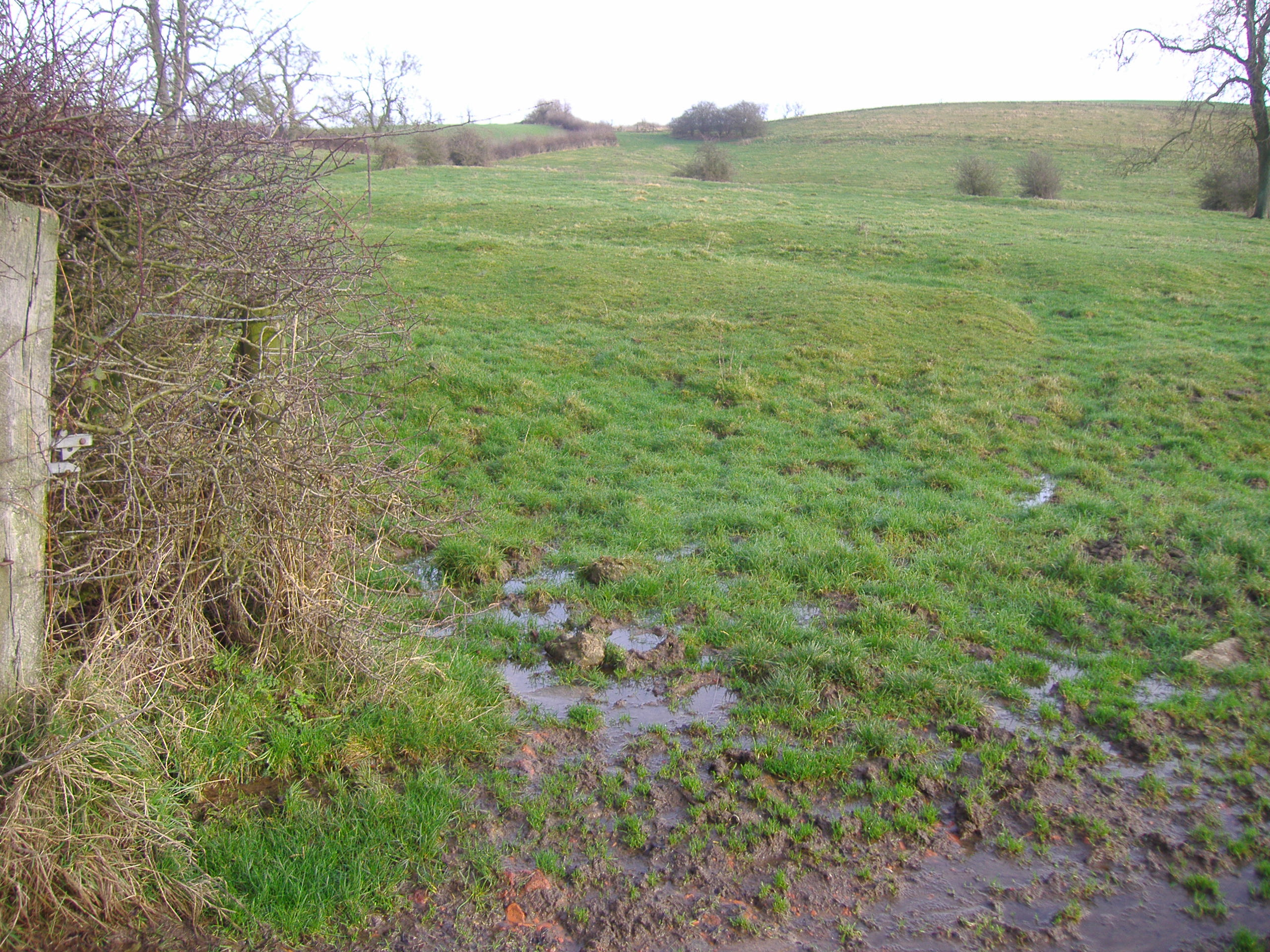 A Digital Photograph of the site of the desserted settlement of Braunston Cleves or Fawcliff in the county of Northamptonshire taken on the 22nd January 2008 by Stavros1 (talk) 21:26, 22 January 2008 (UTC)